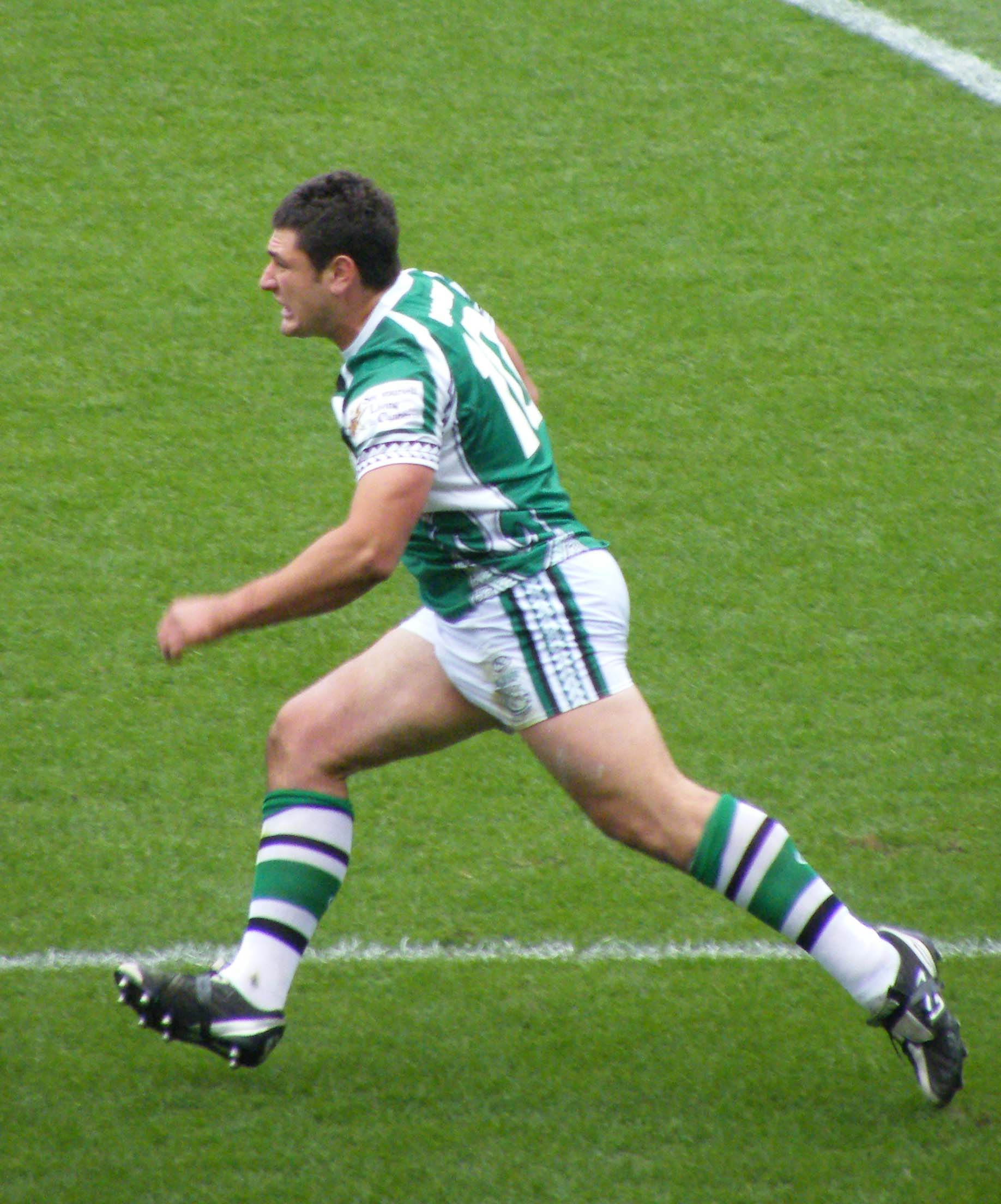 Sam McKendry takes the ball up. RLWC 2008 - Aboriginal Dreamtime Team versus New Zealand Maori.